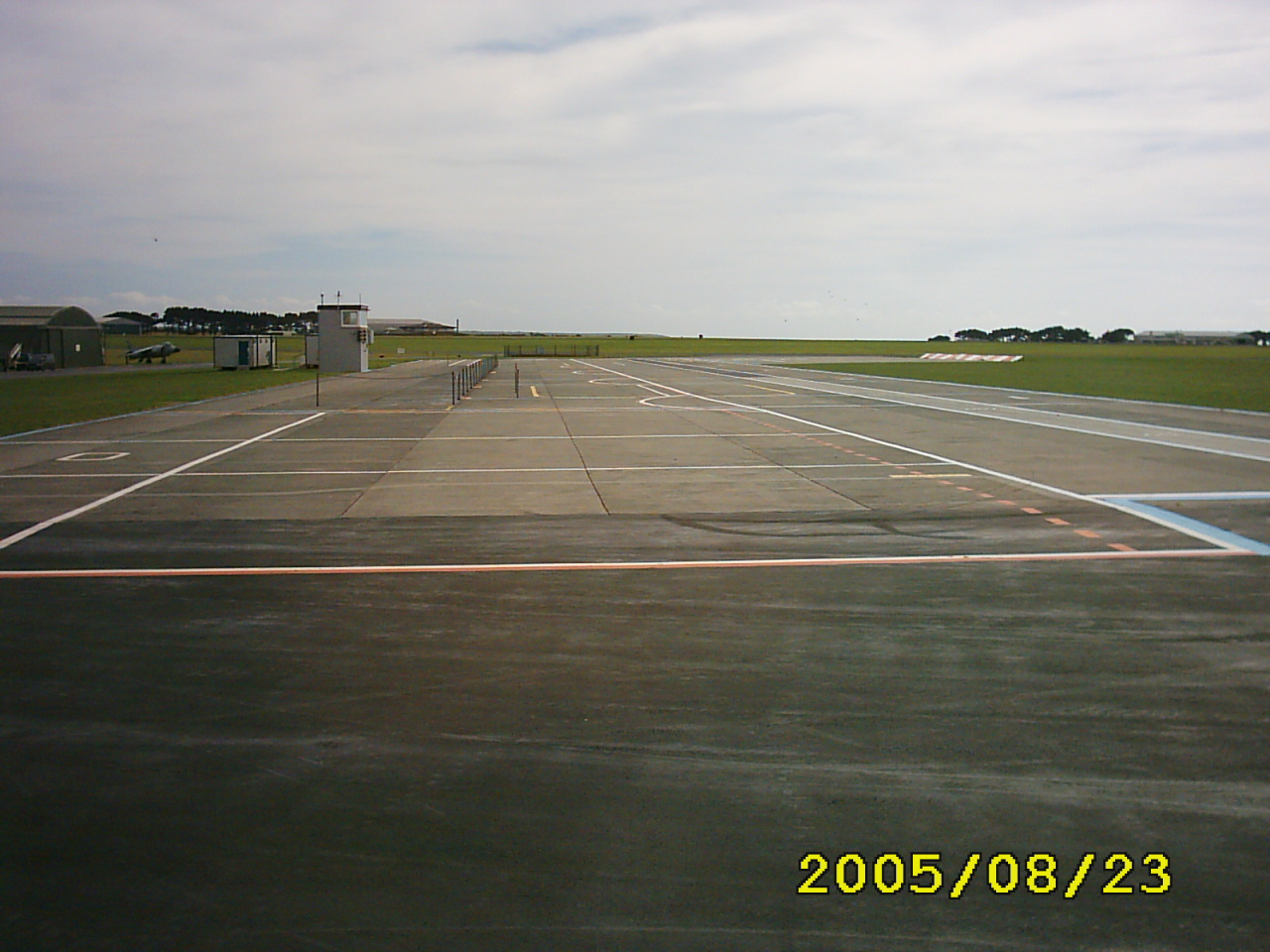 Royal Naval School of Flight Deck Operations (SFDO) dummy deck at RNAS Culdrose. Taken with BenQ C25 (digital compact).